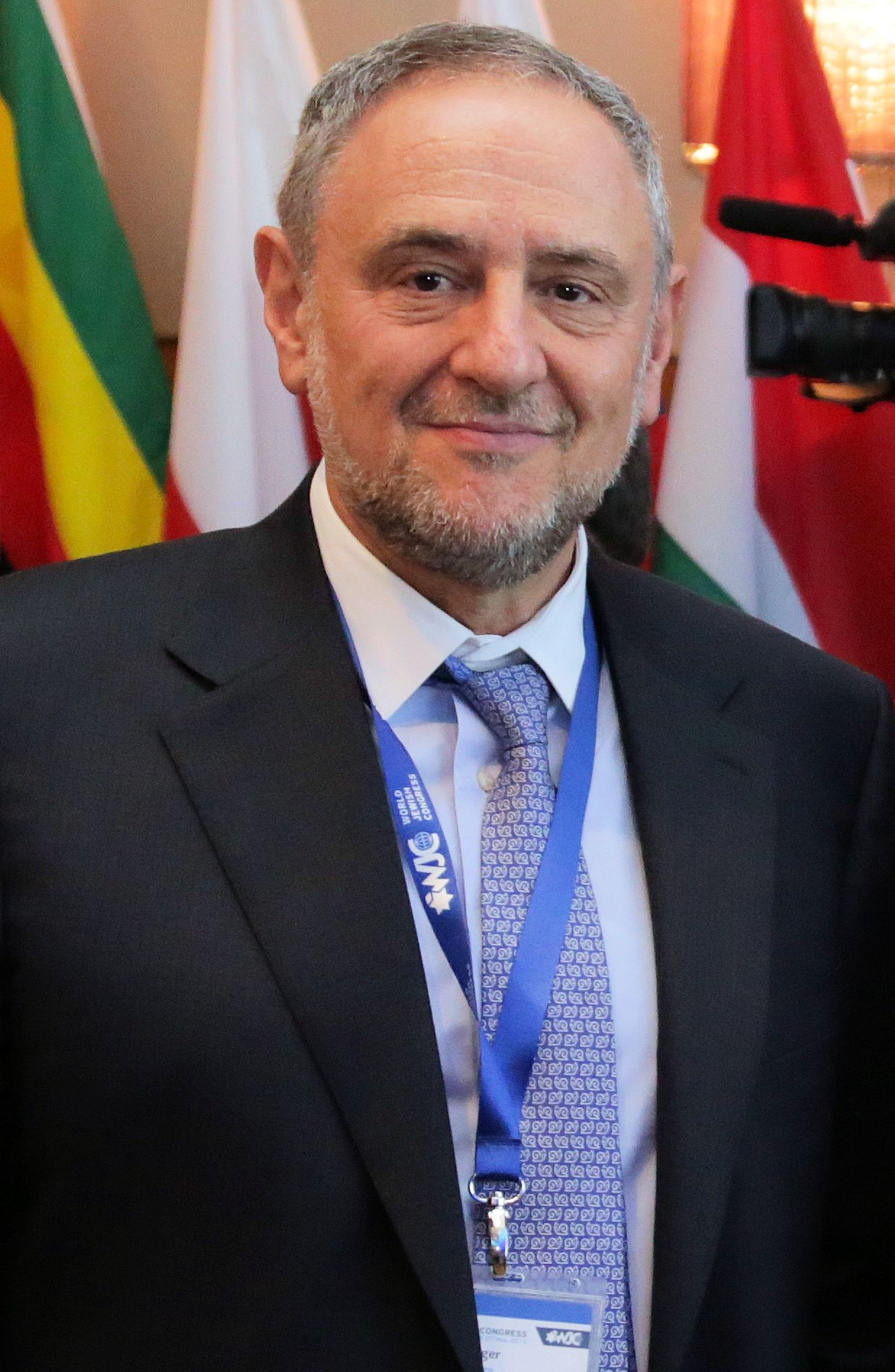 World Jewish Congress CEO and Executive Vice-President Robert Singer, Budapest, May 2013